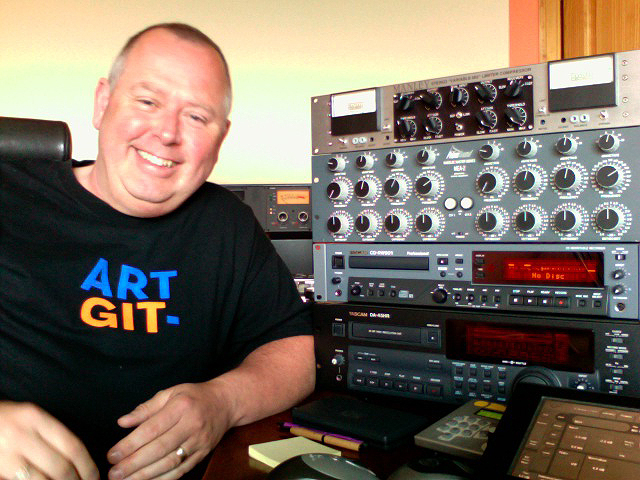 Denis Blackham at his Skye Mastering facility on the Isle of Skye in 2008